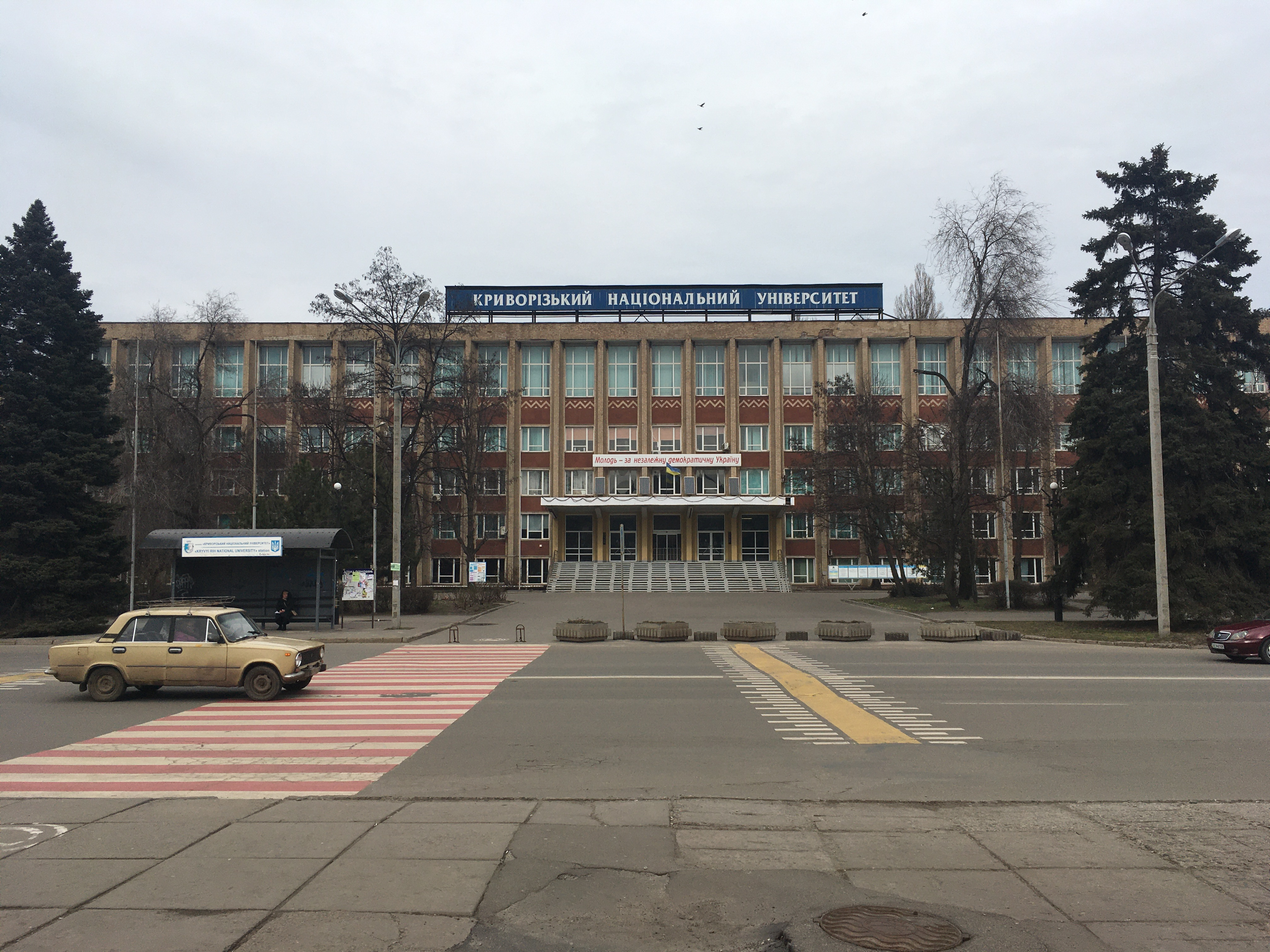 Main building of the Kryvyi Rih National University at April 2020